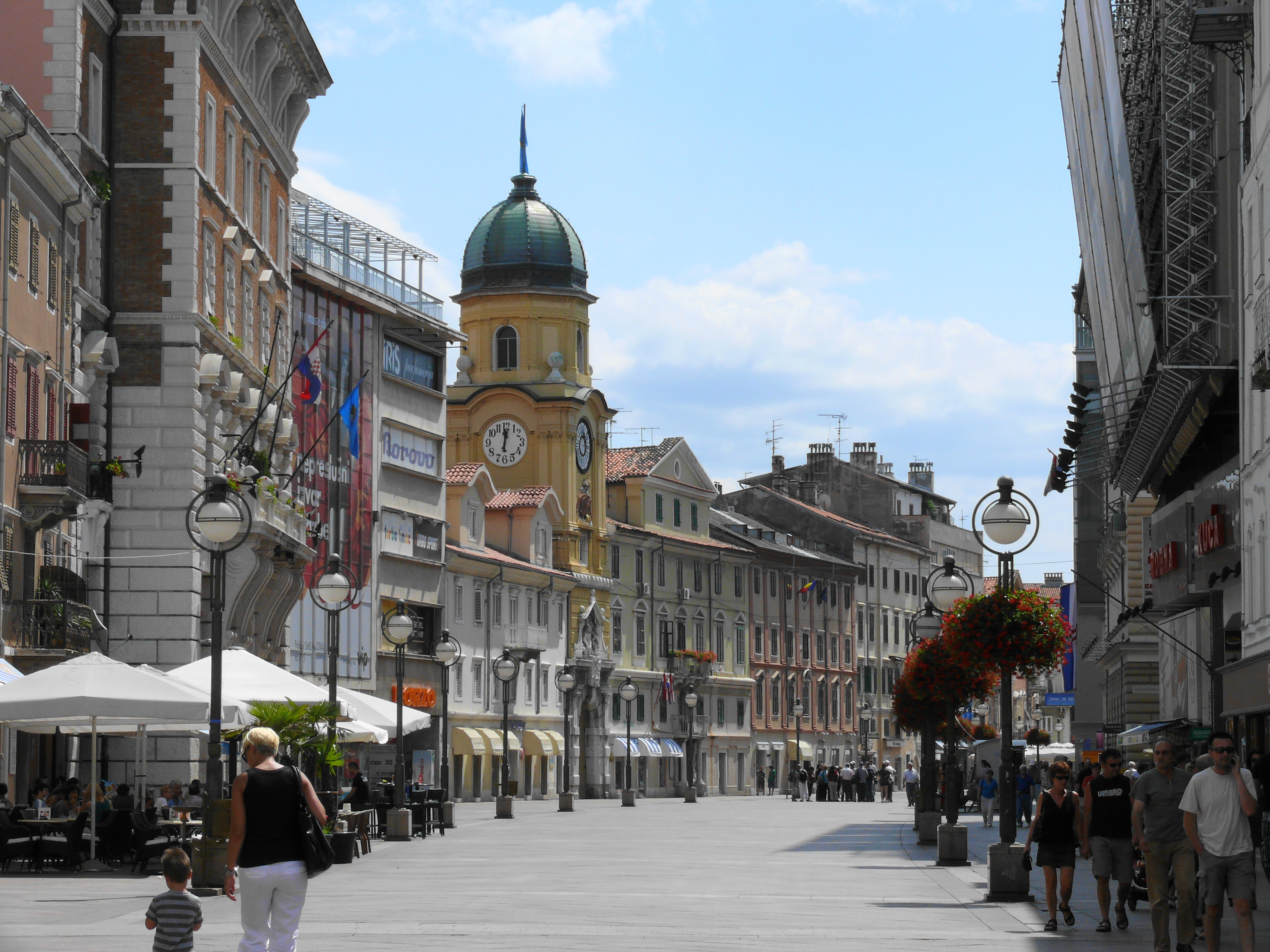 Korzo -Rijeka city -Croatia